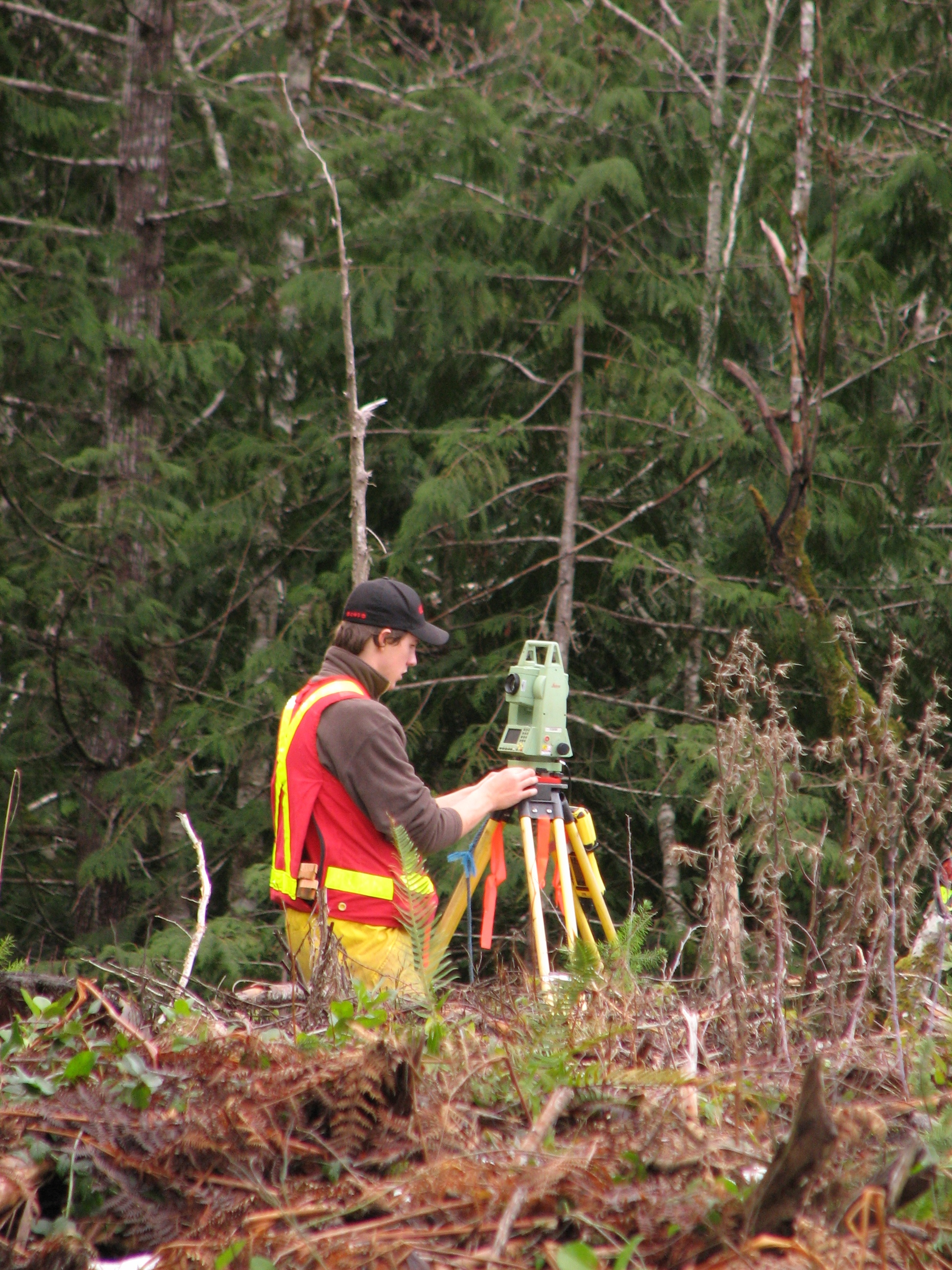 Surveying in forest